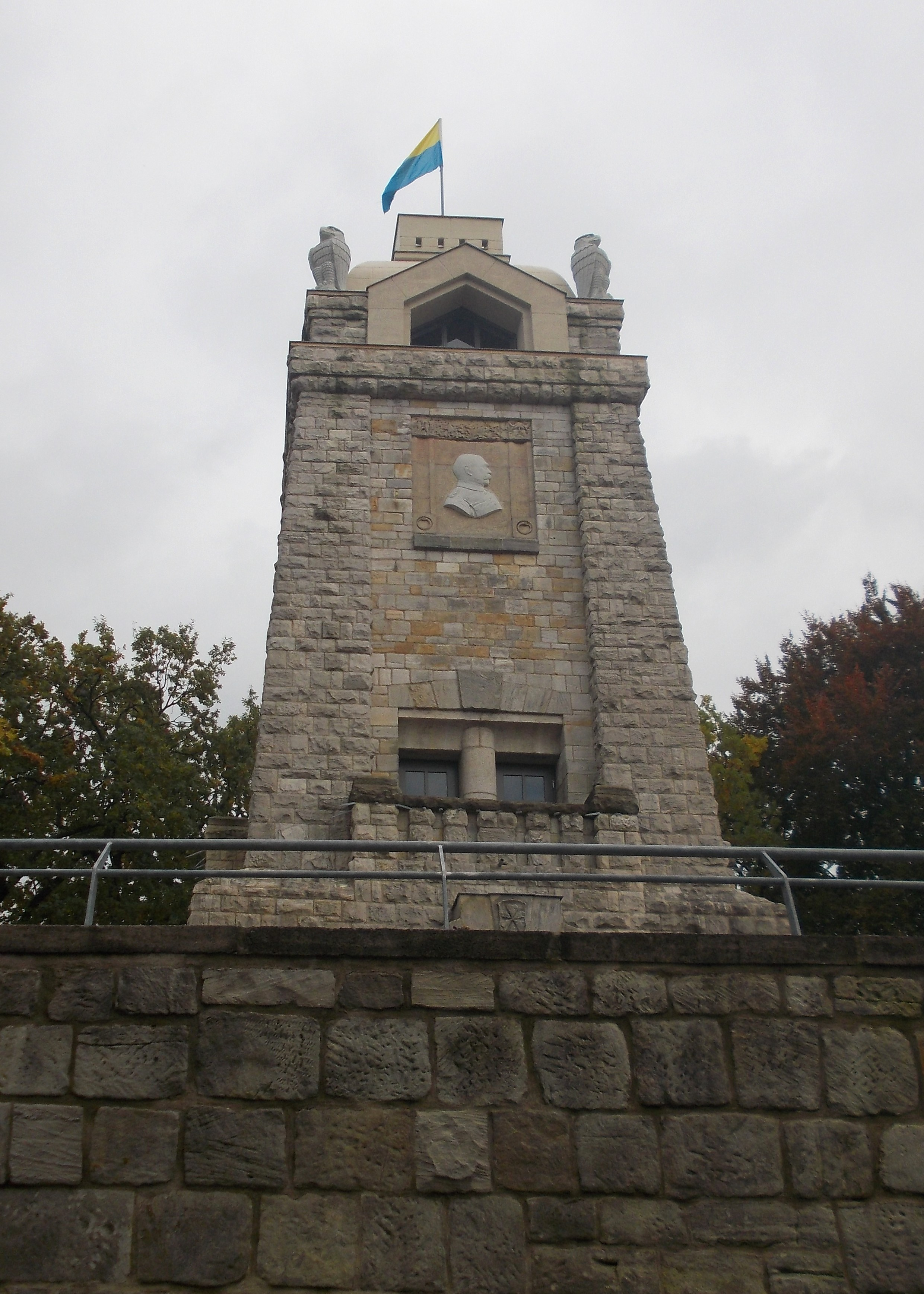 Bismarck Tower in Weissenfels (district: Burgenlandkreis, Saxony-Anhalt)